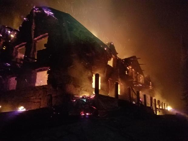 Sperry Chalet on fire August 31st to September 1st, 2017